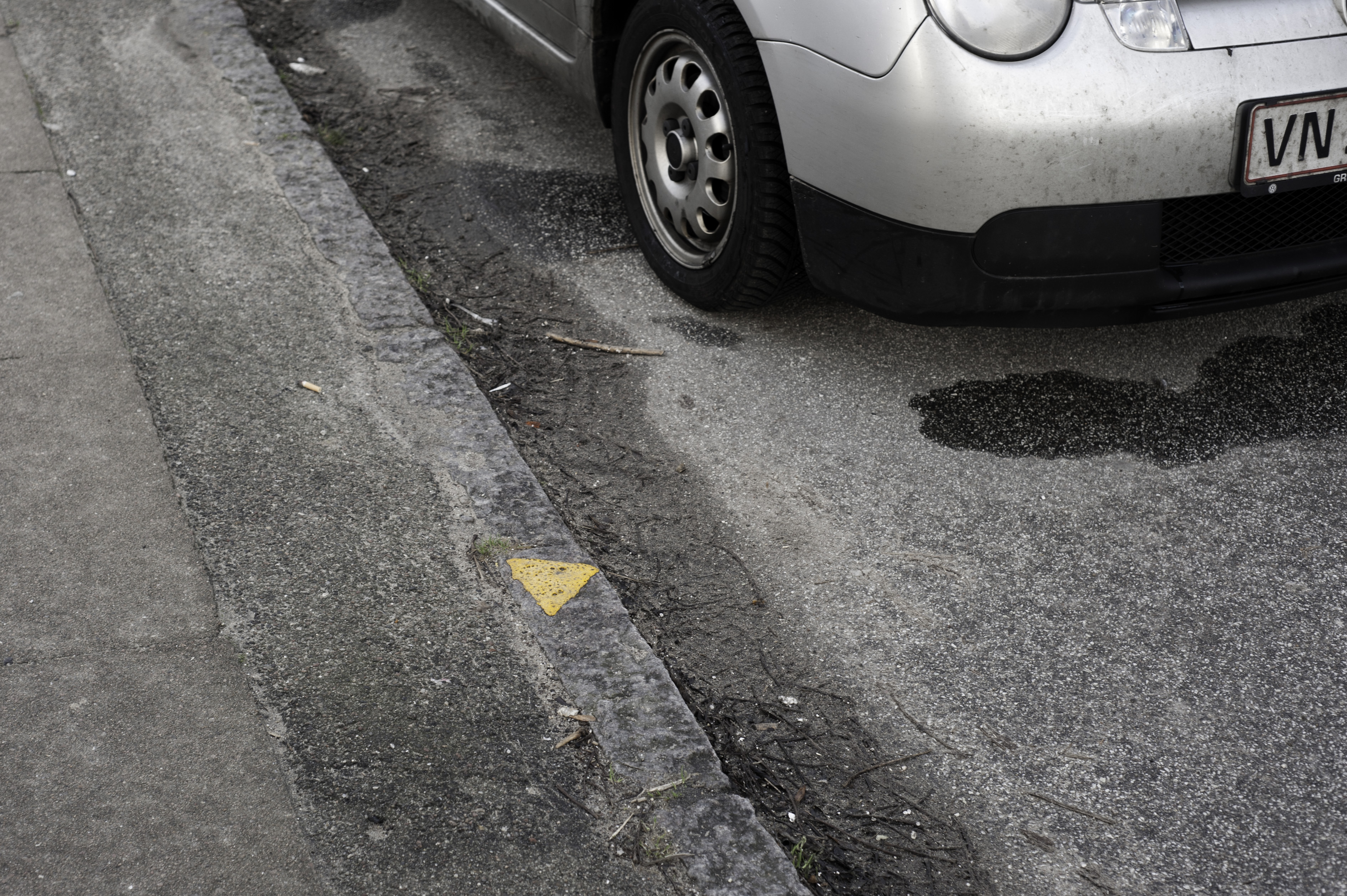 A yellow triangle painted on the curb, indicates 10 meters from the corner (which is the minimum parking distance from a corner in Danmark) in Copenhagen.